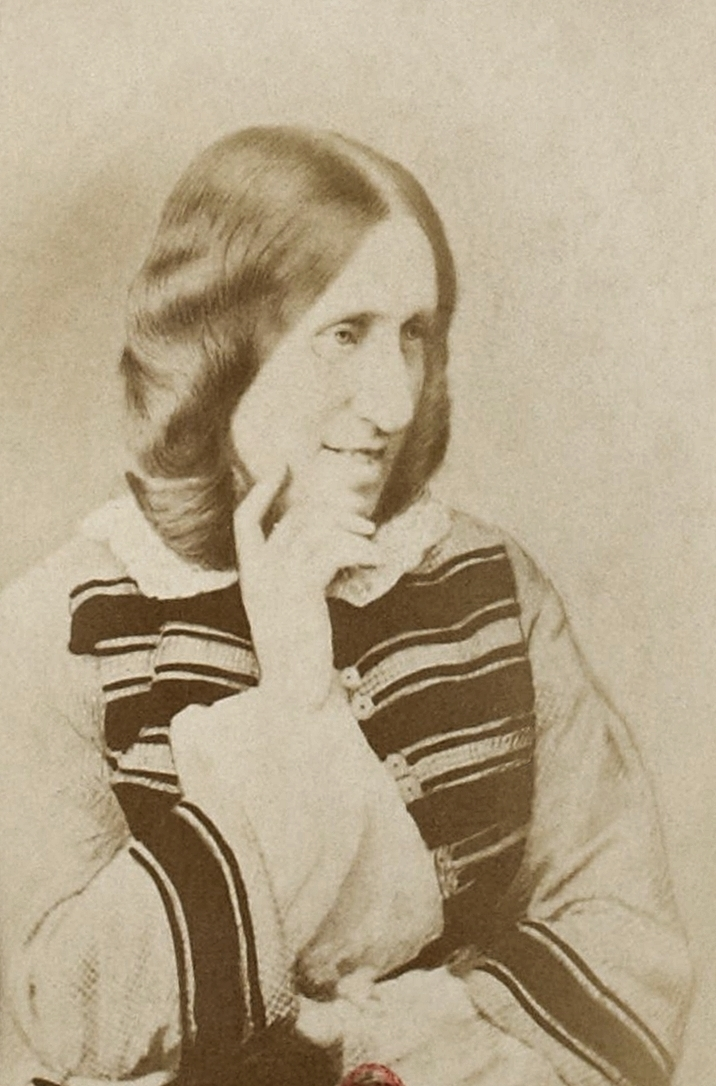 Photographic portrait (albumen print) of George Eliot (Mary Anne Evans, 1819-1880), british novellist.